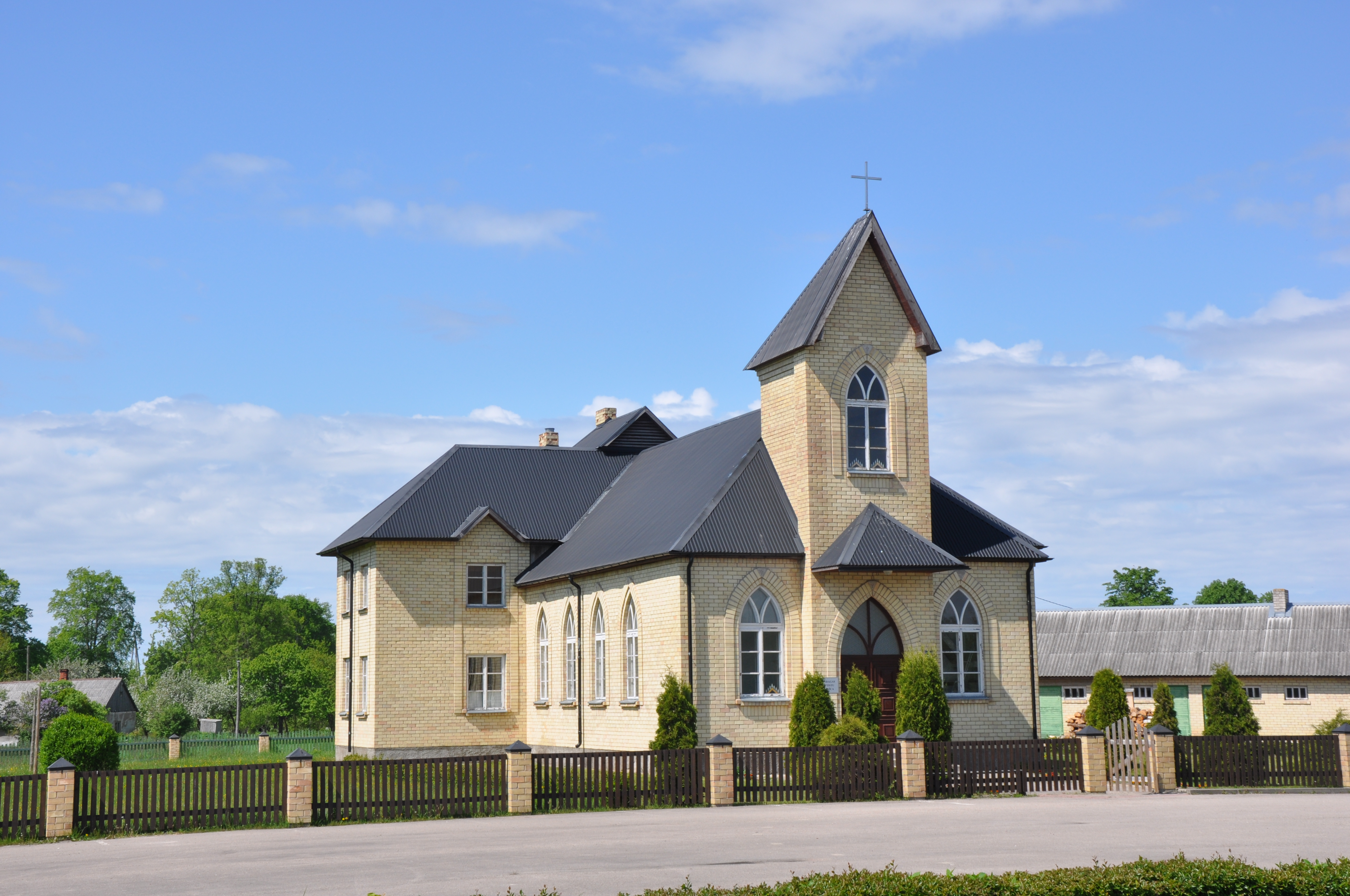 Dundaga Baptist Church